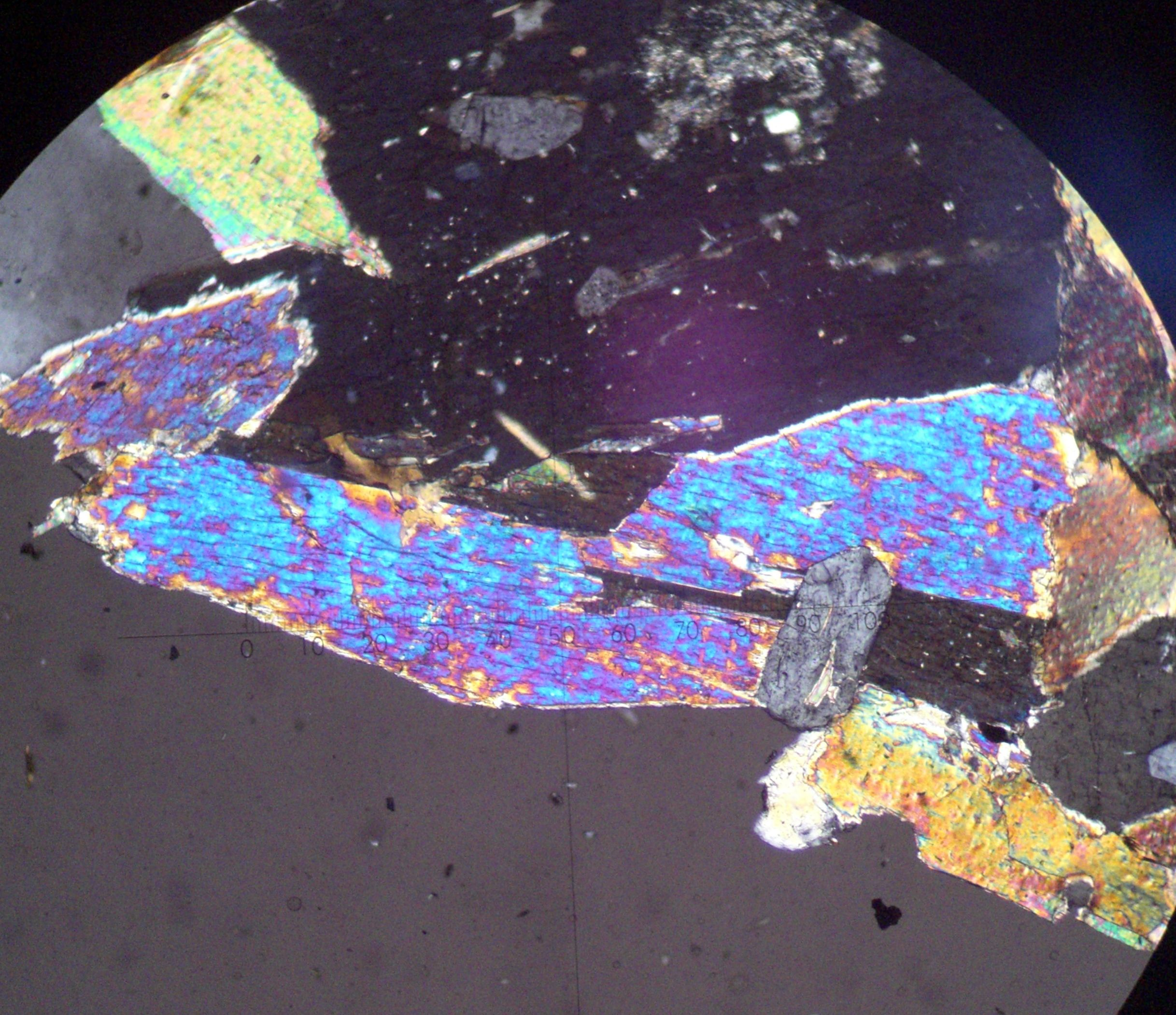 Amphibole grain (in the middle of threads cross) with few biotite grains in the right parts. On right site of Amphibole grain is one Apatite grain. Observe with 2 nikols (Zoom in 40 times, 1 millimetre corresponding to 40 units on the scale)